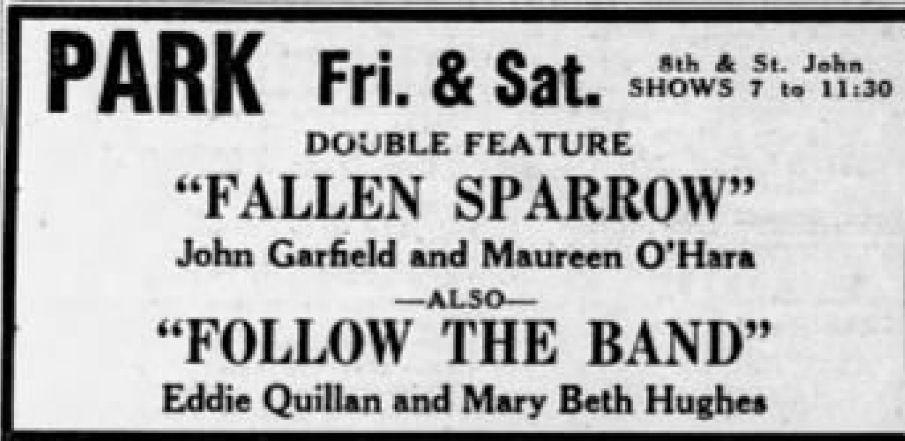 Park Theater advertisement for the American films The Fallen Sparrow (1943) and Follow the Band (1943) - 24 Dec. 1943 Morning Call, Allentown PA